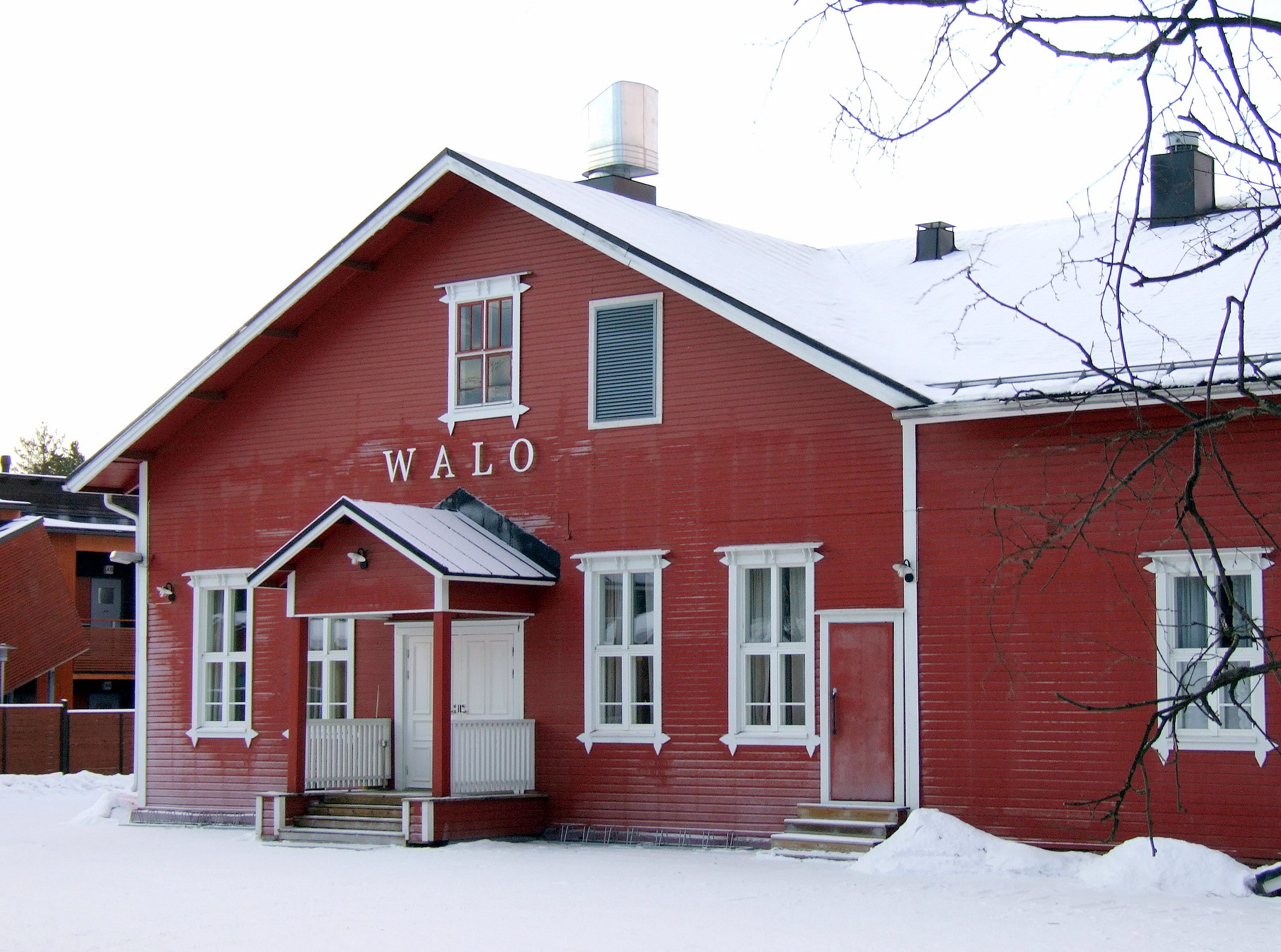 Walo community building in Koskela neighbourhood in Oulu